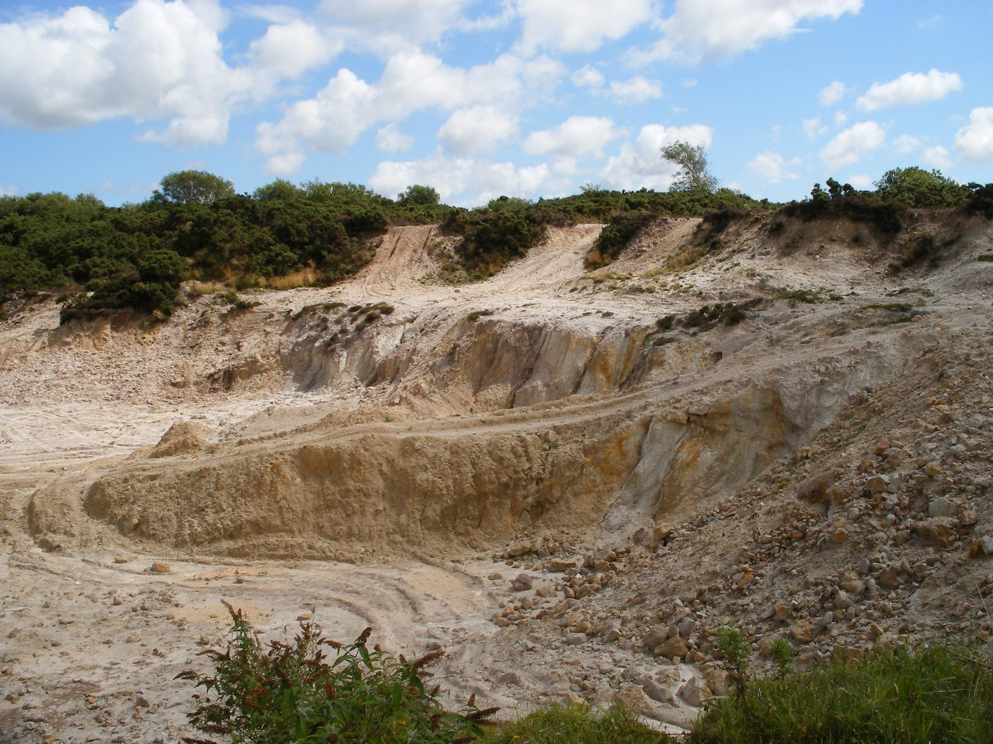 Picture of the Main Opencast at the Hemerdon Ball Mine taken by user of Wikipedia account. The picture is released into Public Domain by the author.